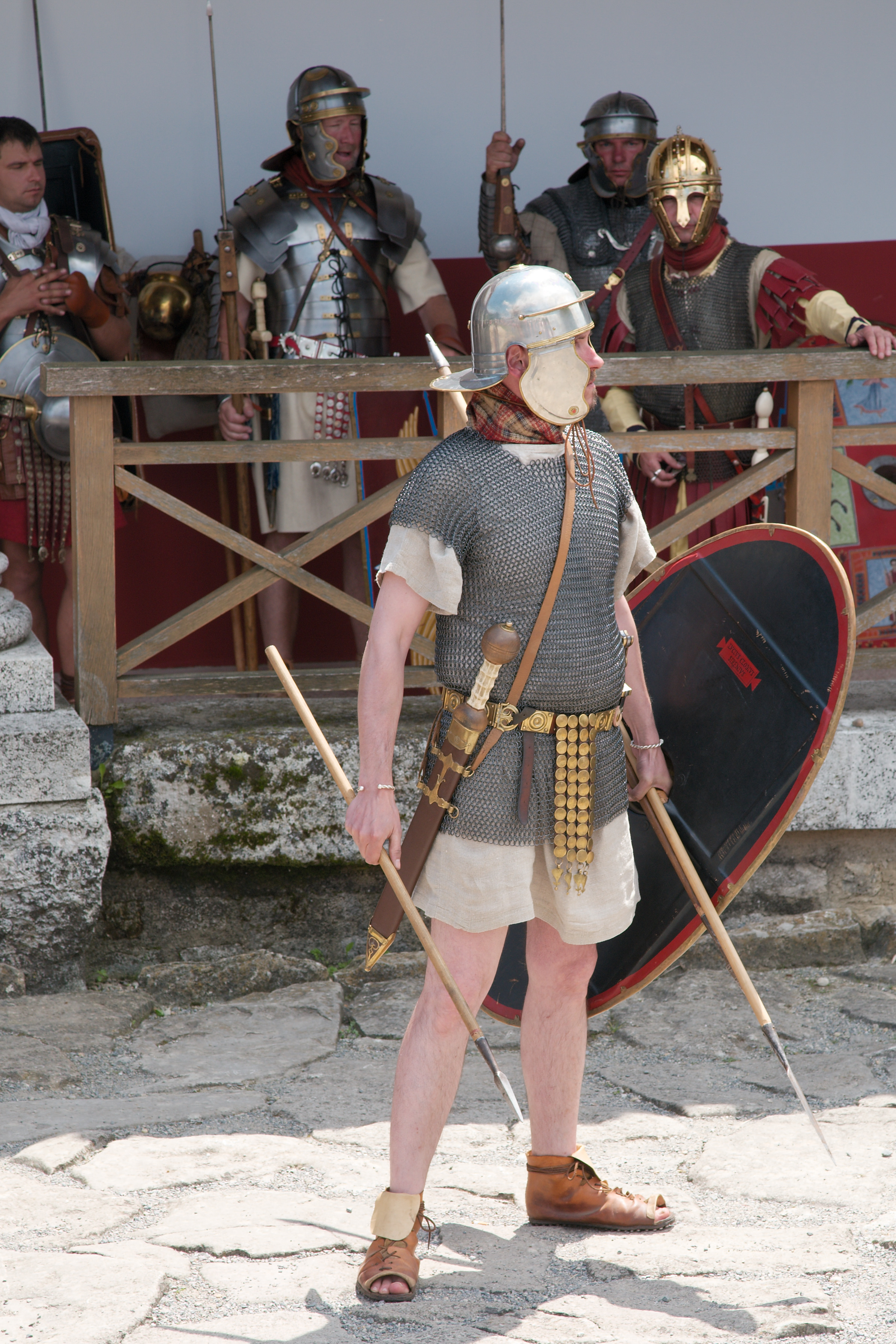 Roman auxiliar soldier 1. century. Reenactment of [1]